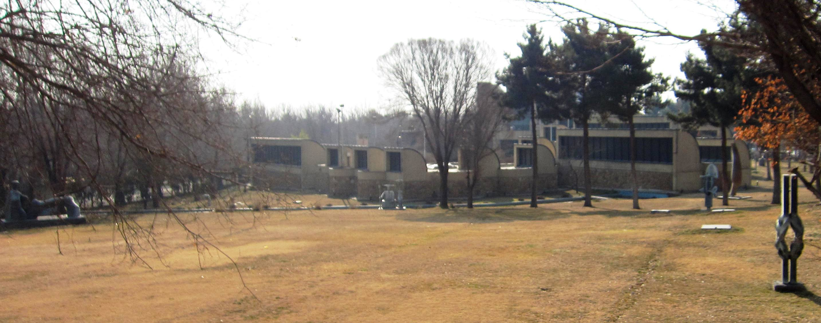 The Sculpture garden of Tehran Museum of Contemporary Art